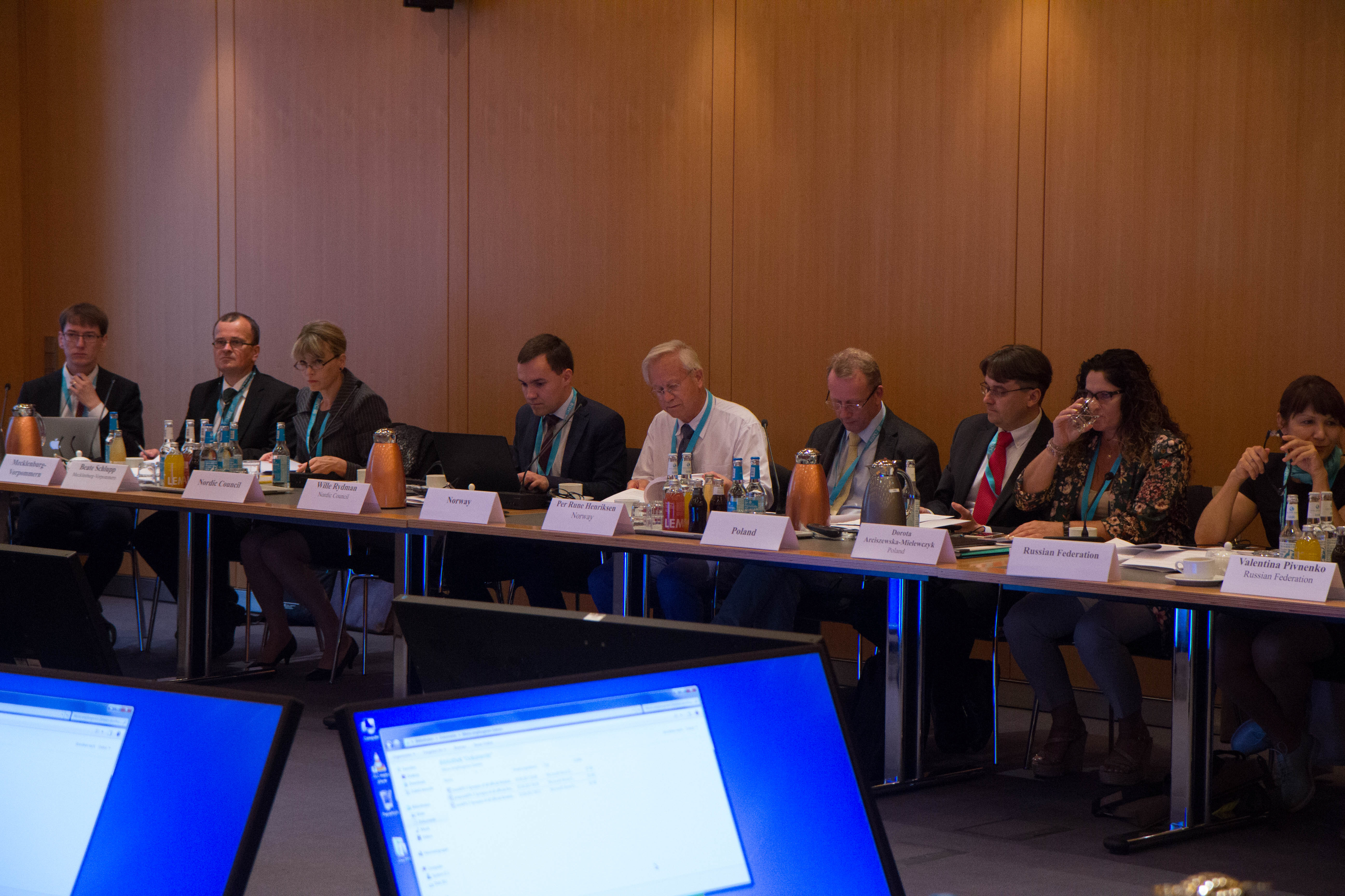 Baltic Sea Parliamentary Conference 3..-5. September 2017 in Hamburg.